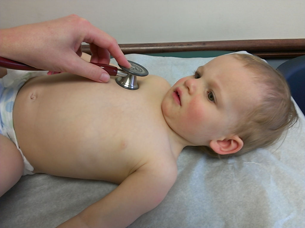 A young girl, age 15 months, undergoing a physical examination. The pediatrician is using a stethoscope on the right side of the child's chest.